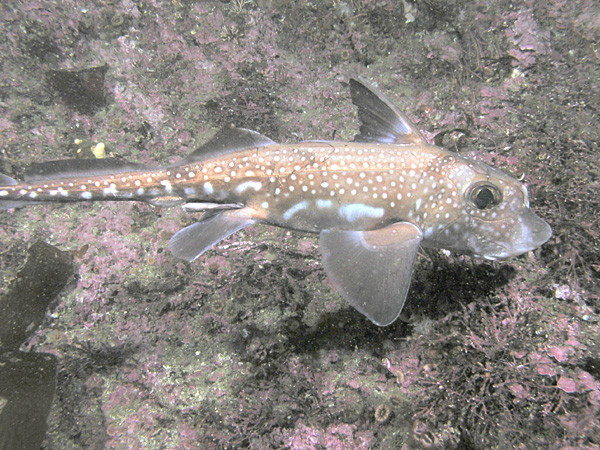 Ratfish, Bischoff Island, British Columbia, Canada.